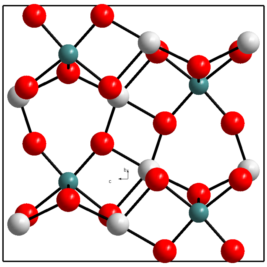 Crystal structure of Pseudobrookite